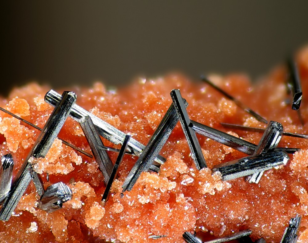 Groutite Locality: Black Water Mine, Black Mesa Basin, Apache County, Arizona, USA (Locality at ) Picture width 6 mm. Collection and photograph Christian Rewitzer This Photo was Photo of the Day - 5th Nov 2007